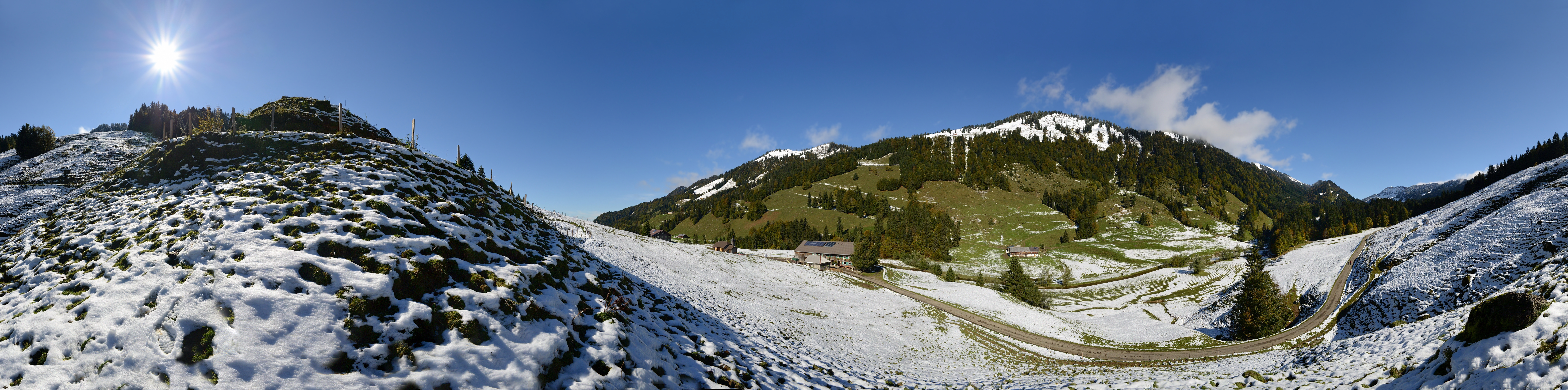 to Hittisau Lecknertal also belongs to the Lake Leckner, which is used agriculturally to mid-September from end of May. The Lecknerroad is a toll road above the plot Hoefle to insubric lake park (15 minutes walk). In the picture you Hoefle plot featuring a chapel, the guest house and nestling in the back Schneidenbach Alpe. Those snowy peaks on the left show the Falken and 1564m above the rear Schneidenbachalpe the Rohnehöhe (Einguntkopf) 1639m. Both peaks lie on the border with Germany. NOTE: This image is a panorama consisting of multiple frames that were merged or stitched in software. As a result, this image necessarily underwent some form of digital manipulation. These manipulations may include blending, blurring, cloning, and colour and perspective adjustments. As a result of these adjustments, the image content may be slightly different from reality at the points where multiple images were combined. This manipulation is often required due to lens, perspective, and parallax distortions.